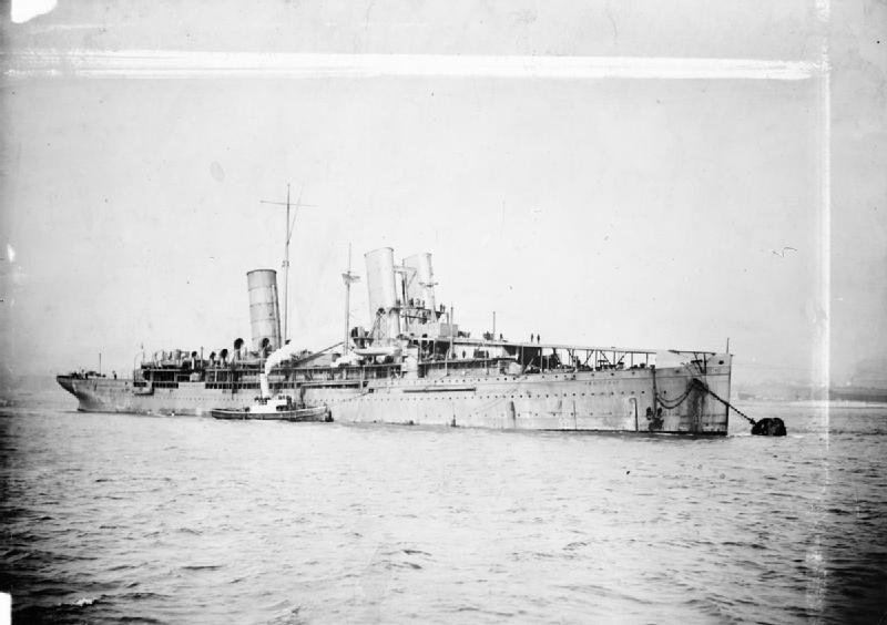 British aircraft carrier HMS CAMPANIA.